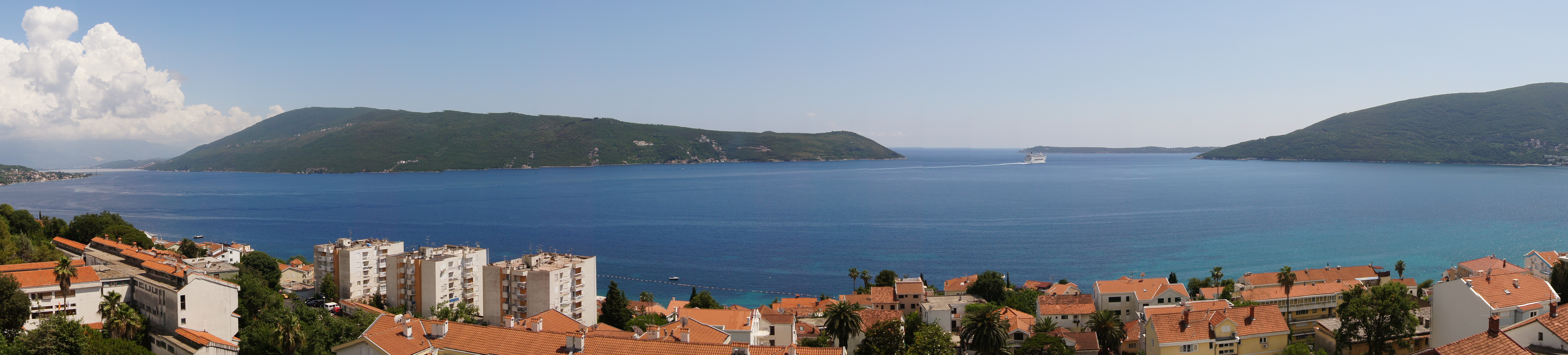 Panorama Herceg Novog